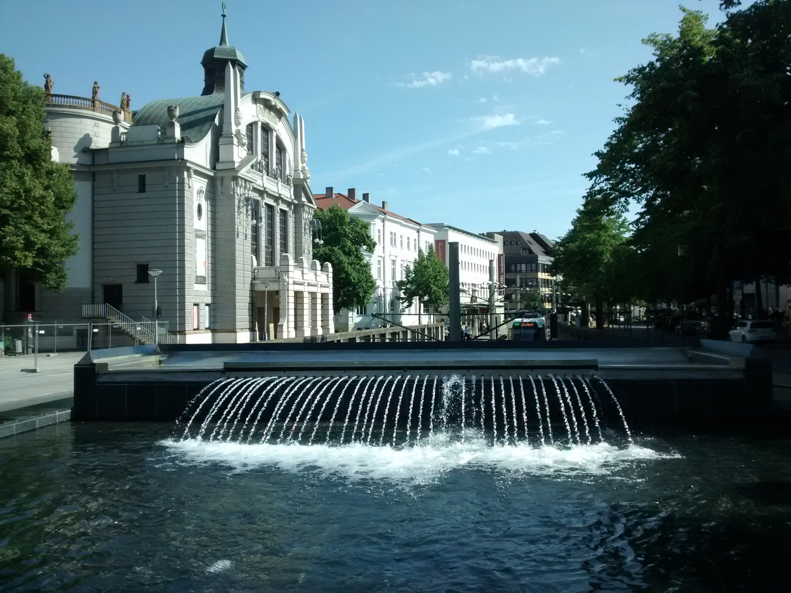 Niederwall in Bielefeld City, site of the former fortifications of the medieval town; fountain basin above the tram tunnel, on the left the Stadttheater (municipal theatre)